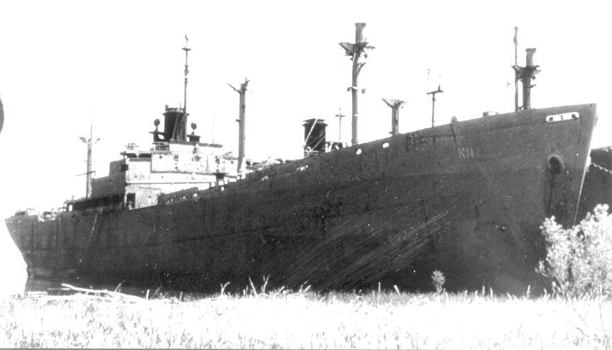 The former USS Indus (AKN-1) laid up in reserve as Theodore Roosevelt, date and place unknown.